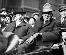 Health Commissioner, Dr. John Dill Robertson, and Mayor William Hale Thompson, riding in an automobile during a parade